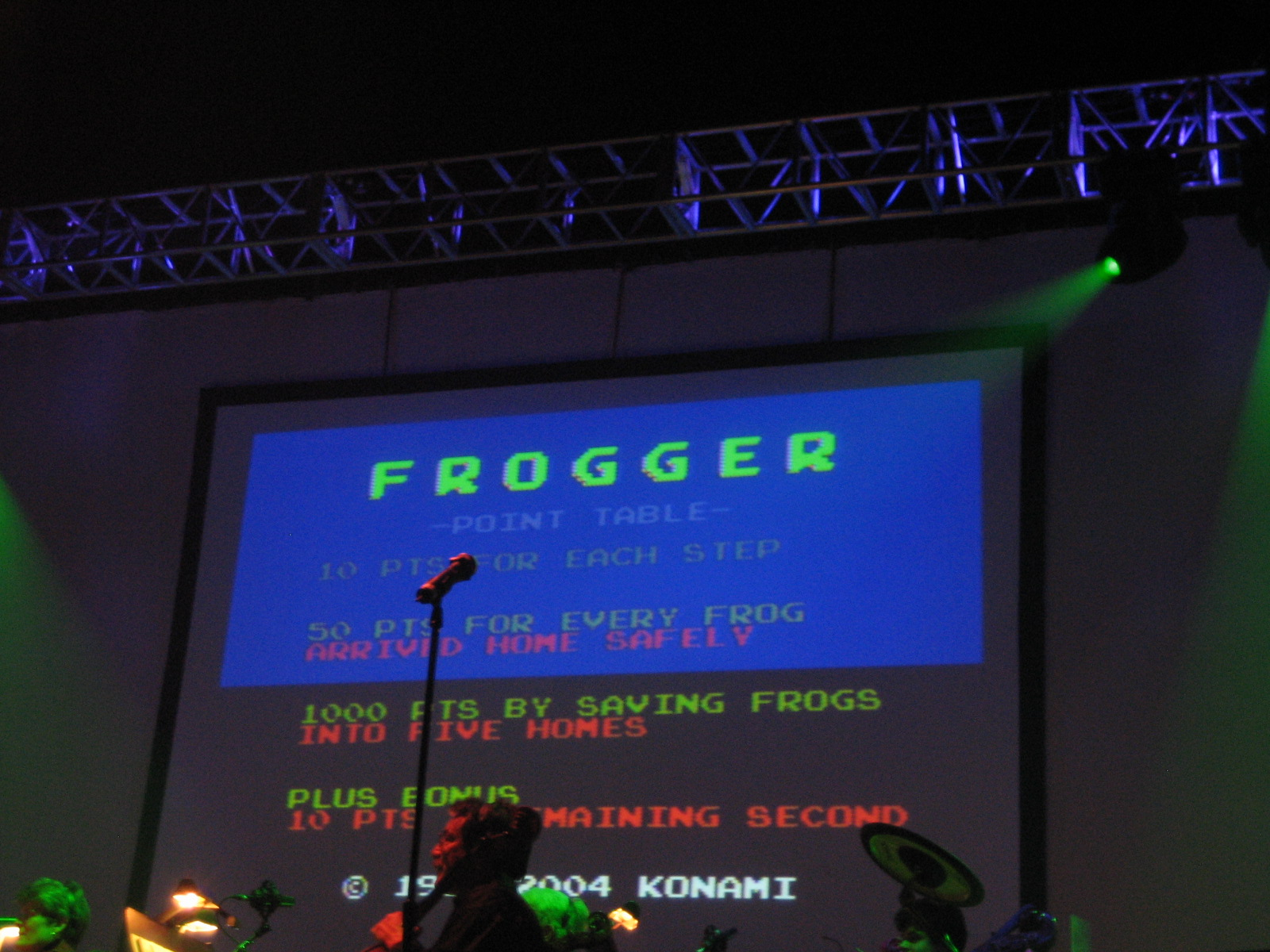 Music of 1981 arcade game Frogger being played at Video Games Live in 2006.